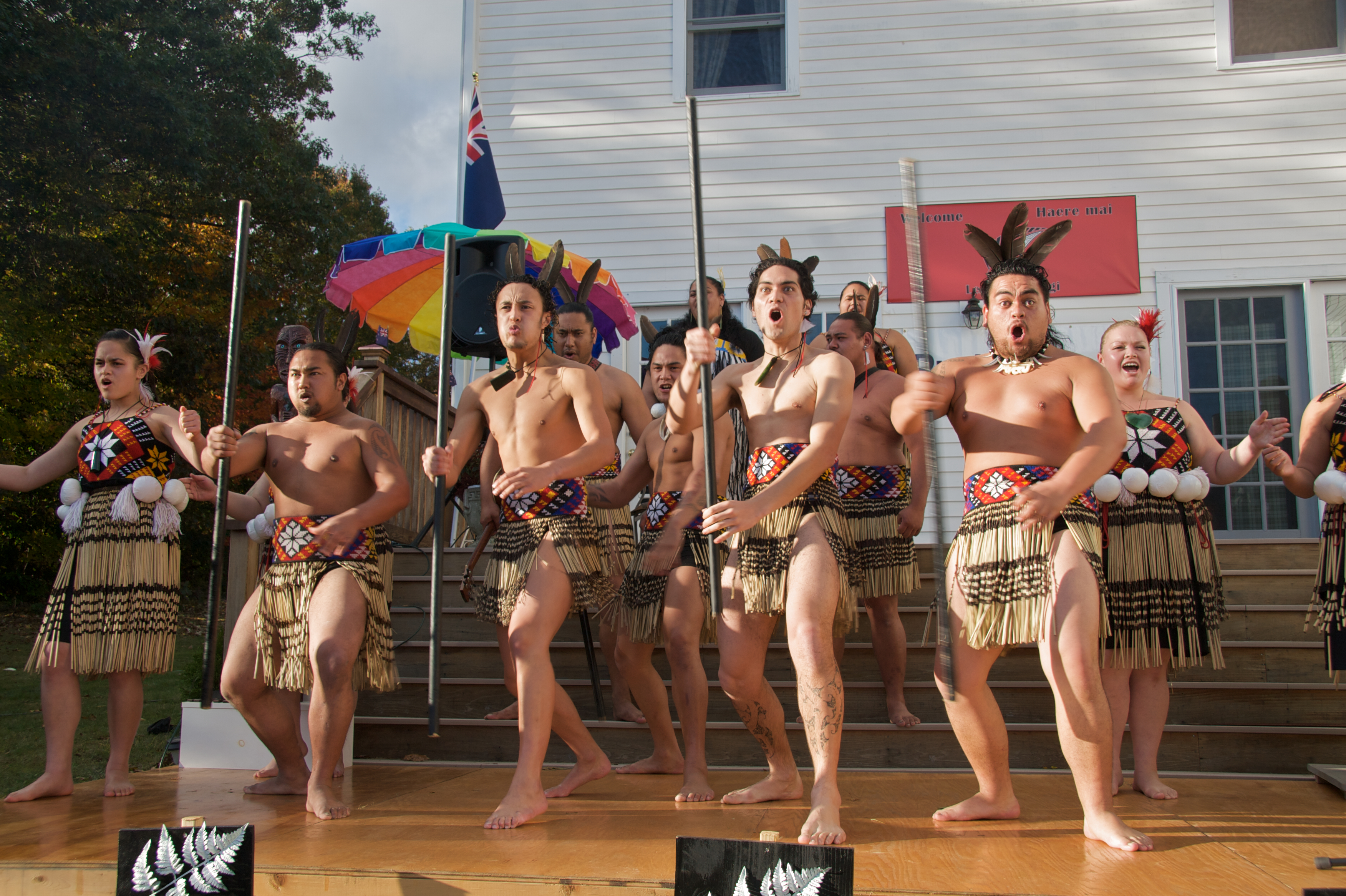 A performance by the Kahurangi Maori Dance group. (Maori Dancers from Kahurangi Maori Dance of New Zealand performing at the Leeming Hangi in Canterbury, New Hampshire, USA)